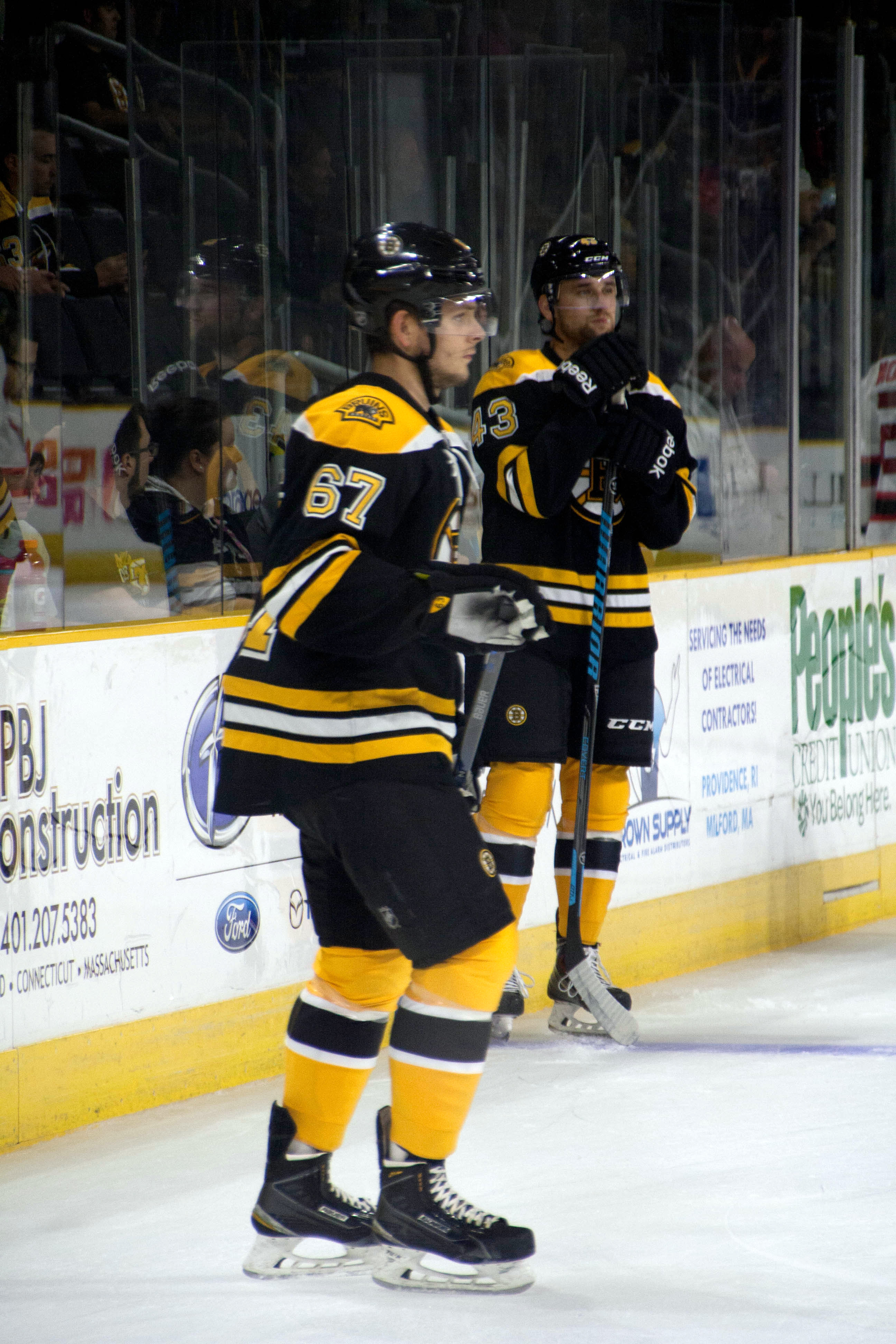 Jakub Zboril in preseason with the Boston Bruins 2015